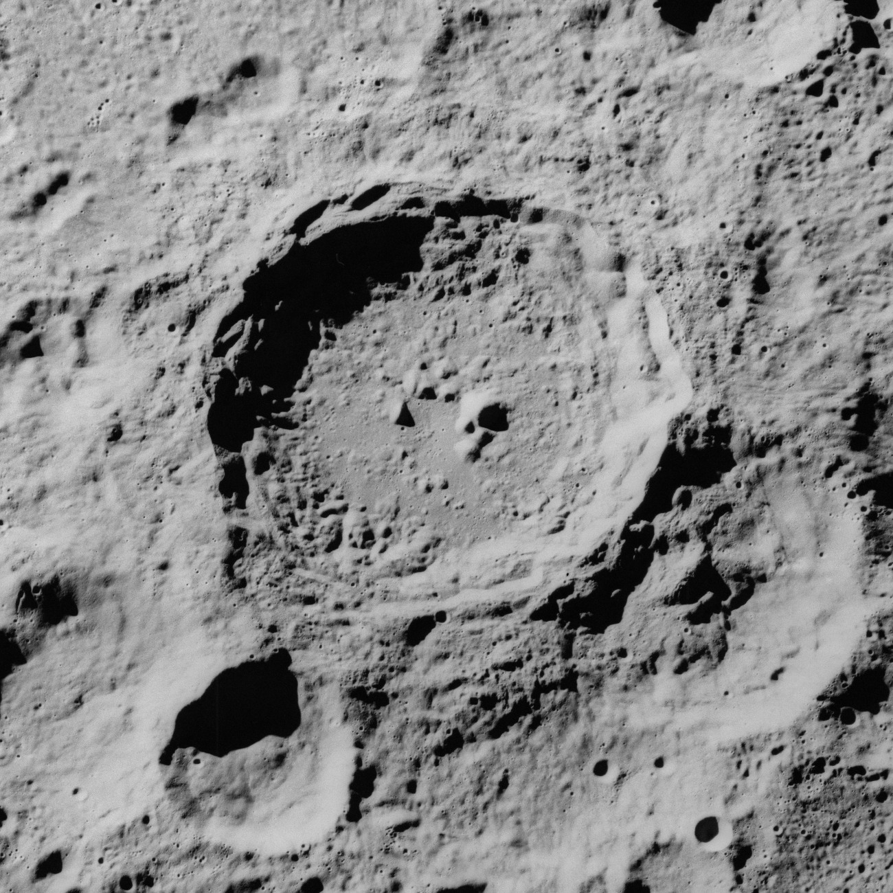 Oblique view of Olcott, on the far side of the moon. North is in upper right.